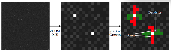 Codi CA: Start of the grwoth phase